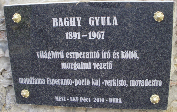 Plaque of Gyula Baghy (Pécs, Hungary)